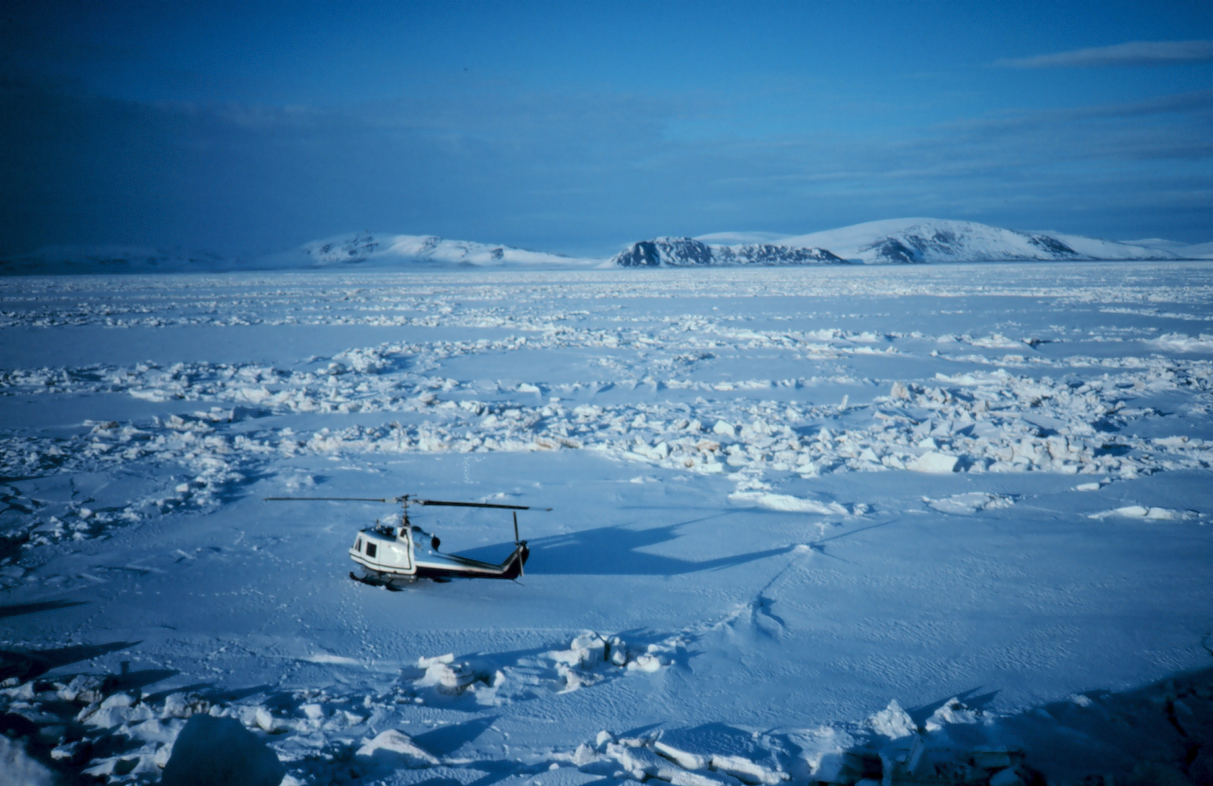 Public Domain. Suggested credit: Commander Eric Davis, NOAA via pingnews. Additional information from source: Ice studies west of Sledge Island just west of Norton Sound. Image ID: fly00535, Flying with NOAA Collection Photo Date: 1981 April Photographer: Commander Eric Davis, NOAA Corps